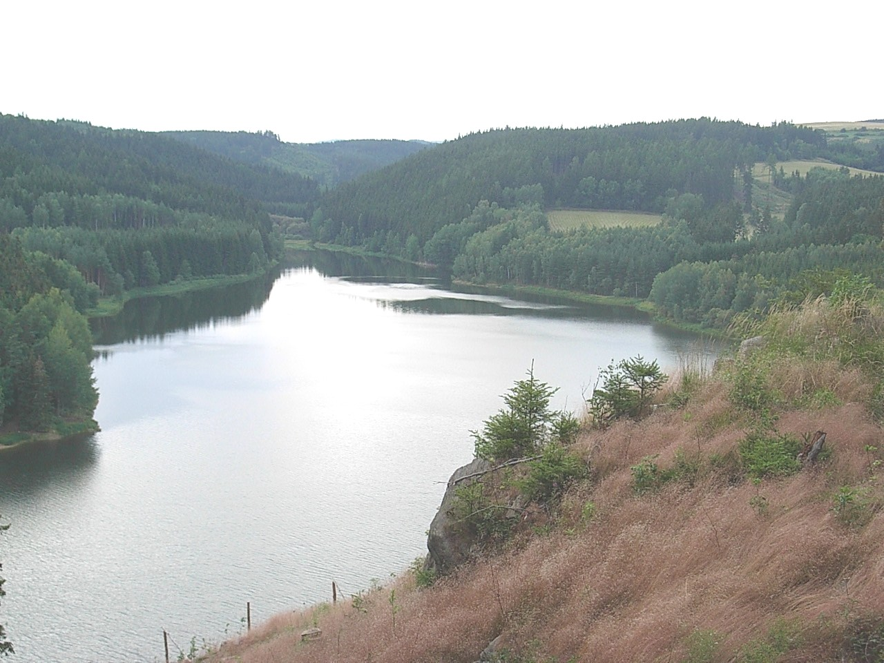 Vodní nádrž Žlutice, pohled na přítoku Ratibořského potoka